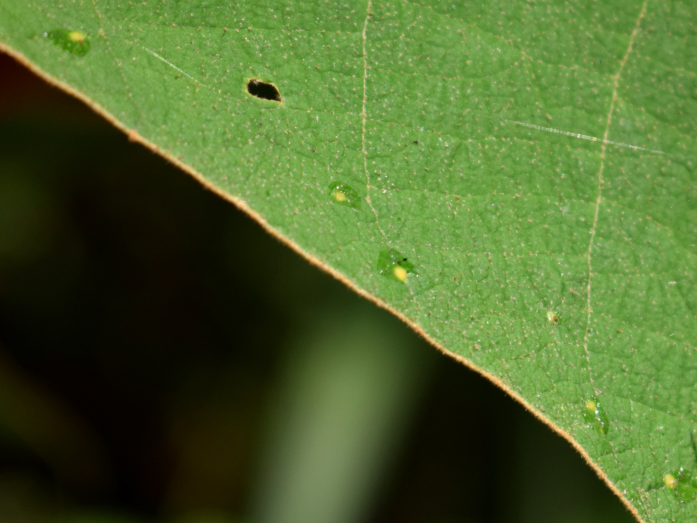 Mallotus molissimus; leaf margin with several extrafloral nectaries. From Bogor, West Java, Indonesia.